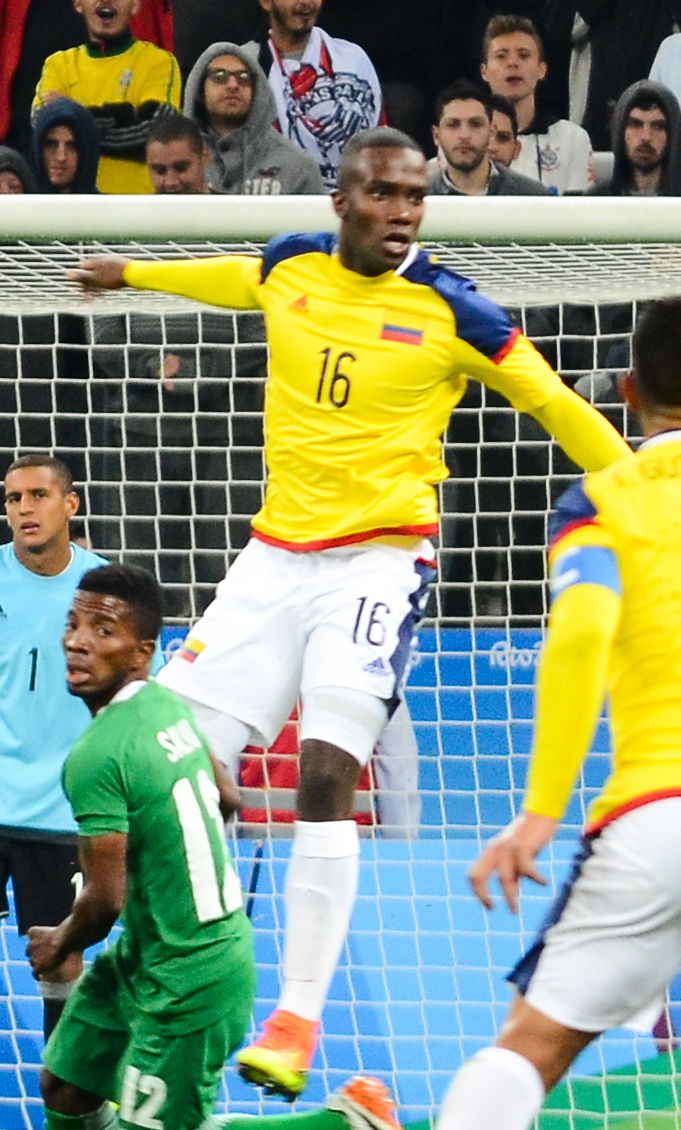 São Paulo - Colômbia vence a Nigéria por 2x0 na Arena Corinthians (Rovena Rosa/Agência Brasil)